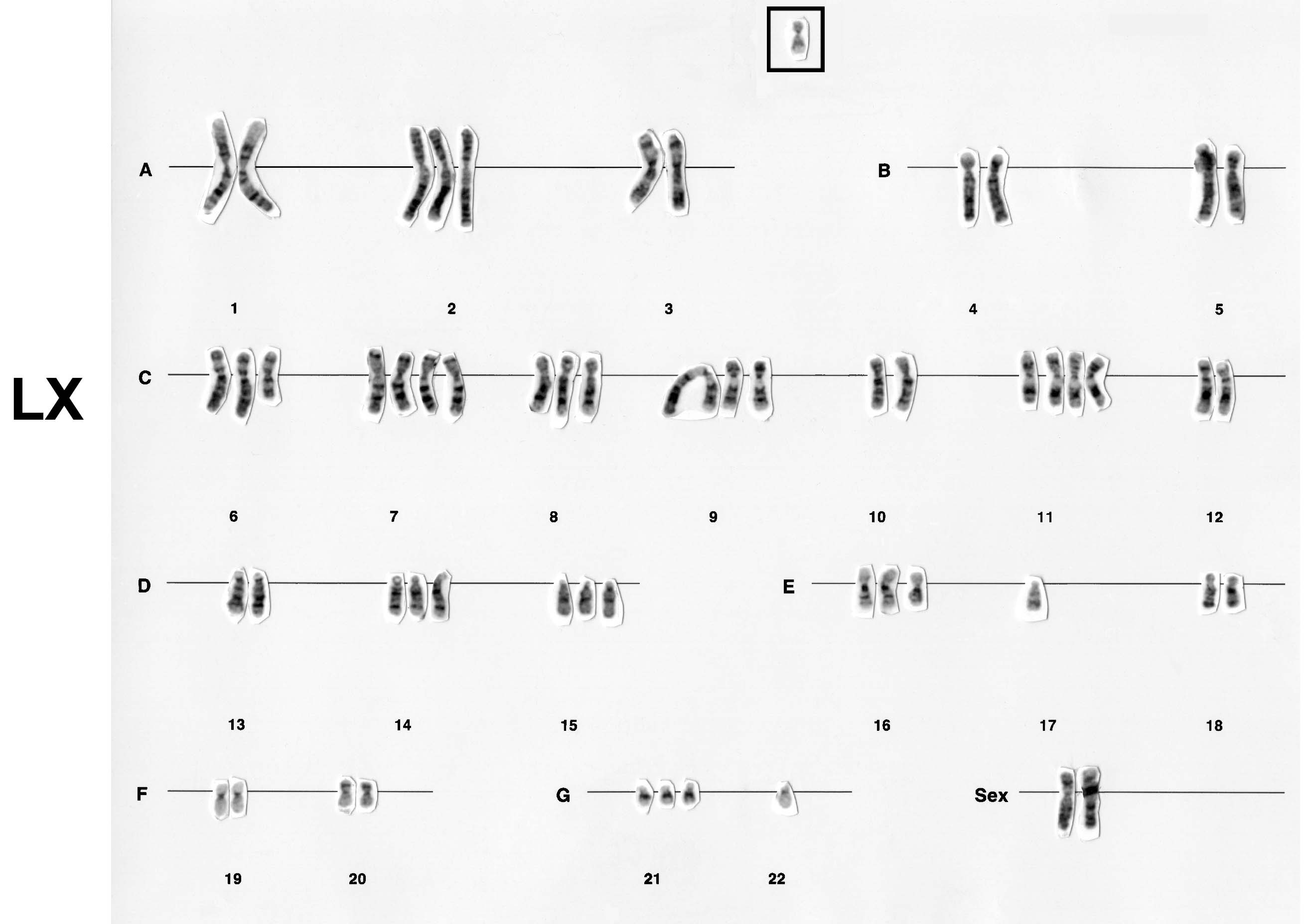 Karyotype of a tumor cell line. Among other imbalances, a marker chromosome can be seen at the top. Original Figure Legend: Representative karyotype from the primary LX tumor cell passage 2. Karyotypic deviation: 57XX, +2, i(6)(p10), +7, +7, +8, +9, der(9)t(9;12)(p13;q11)ins(9;?)(p13;?), +11, +11, +12, +14, +15, +16, -17, del(17)(p11.2), +21, -22, + mar.